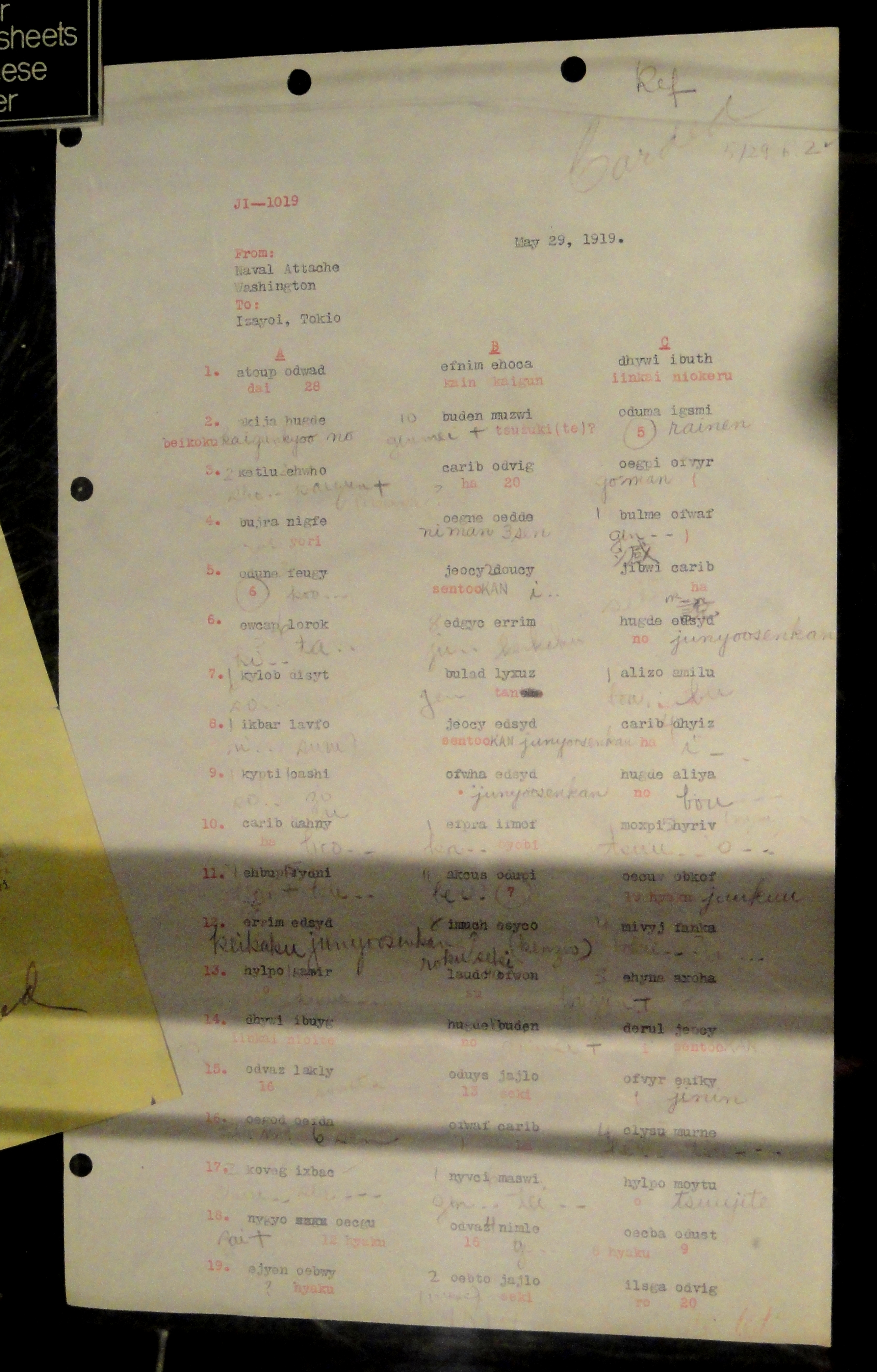 Exhibit in the National Cryptologic Museum, Fort Meade, Maryland, USA. All items in this museum are unclassified; items created by the United States Government are not subject to copyright restrictions.